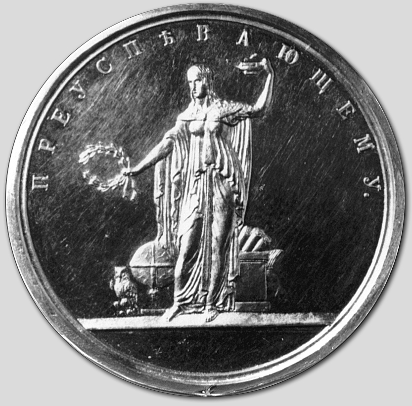 Face sheet of a gold medal with which graduates of a school were awarded up to 1918. The medal has the inscription "Succeeding".